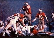 A football card from the 1986 Jeno's Pizza NFL football card stickers set of San Francisco 49ers running back Roger Craig rushing the ball during Super Bowl XIX. The card is numbered #28 in the set. The back of the card reads: CRAIG GOES OVER THE TOP